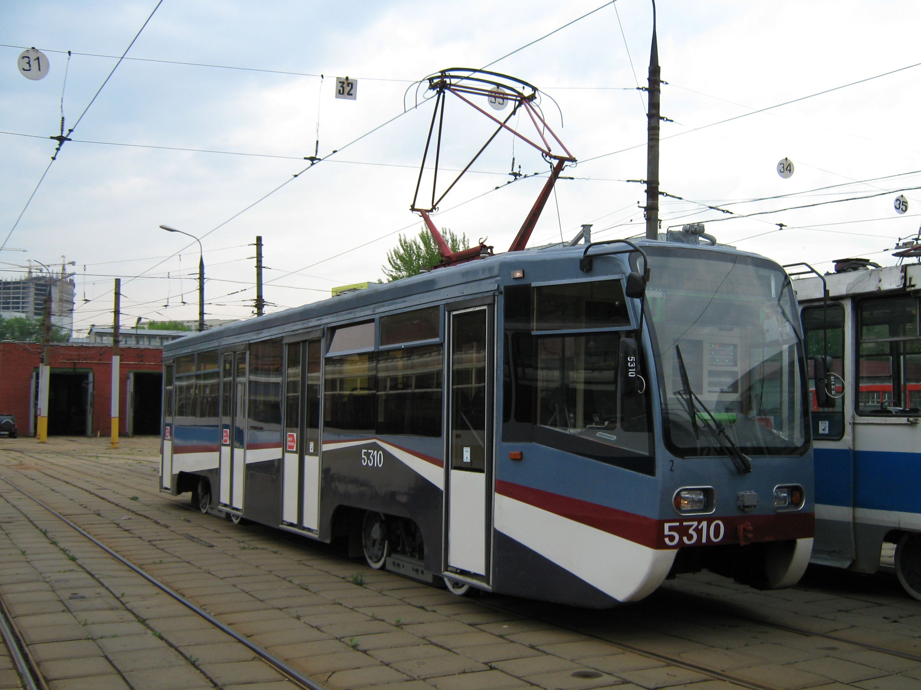 Tram KTMA in Moscow.